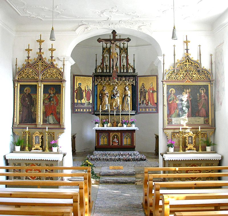 Chapel of ease St. Leonhard (Berghofen, Stadt Sonthofen, Landkreis Oberallgäu, Bavaria, Germany). Interior, looking east